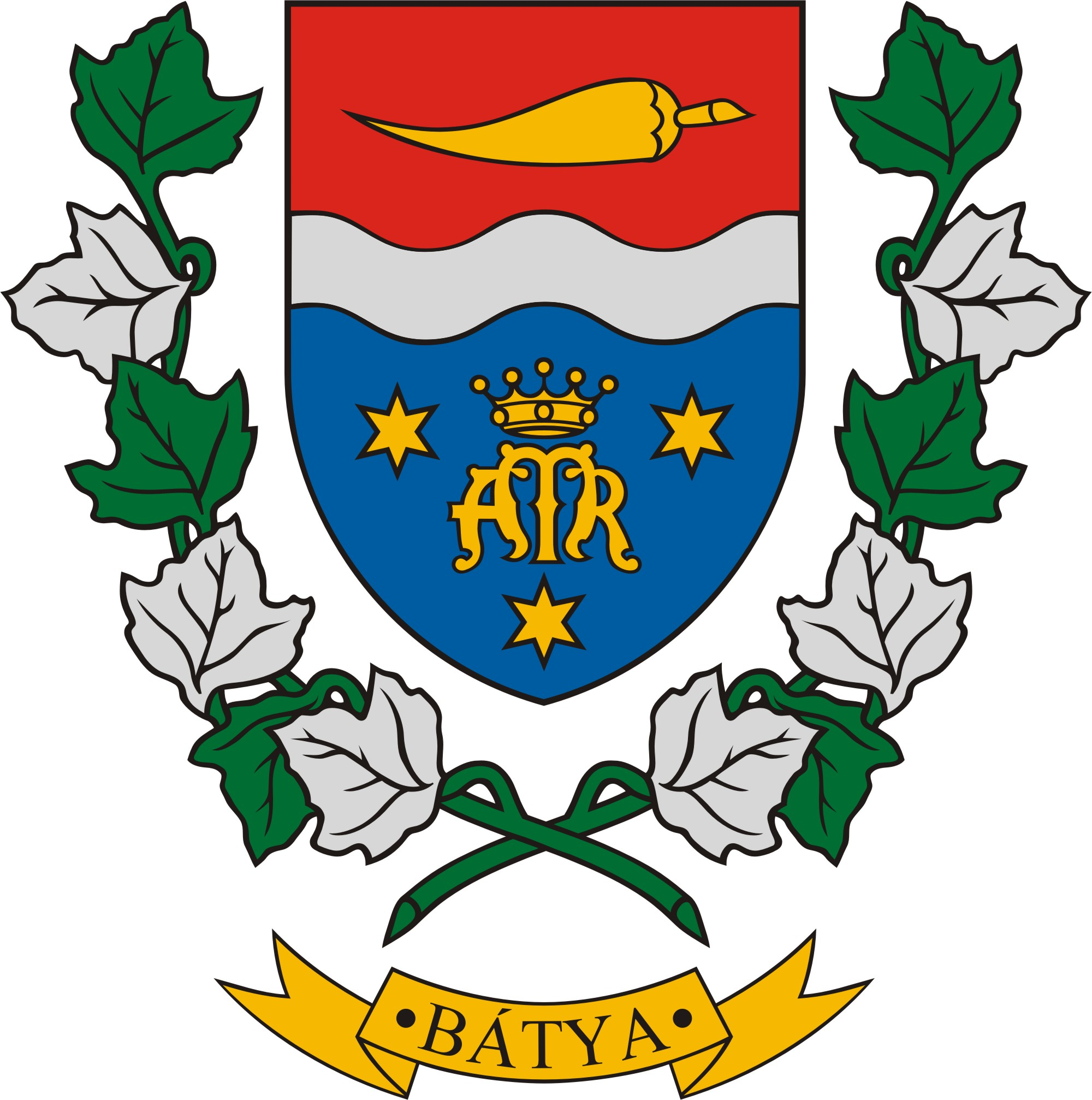 Coat of arms of Bátya, Hungary